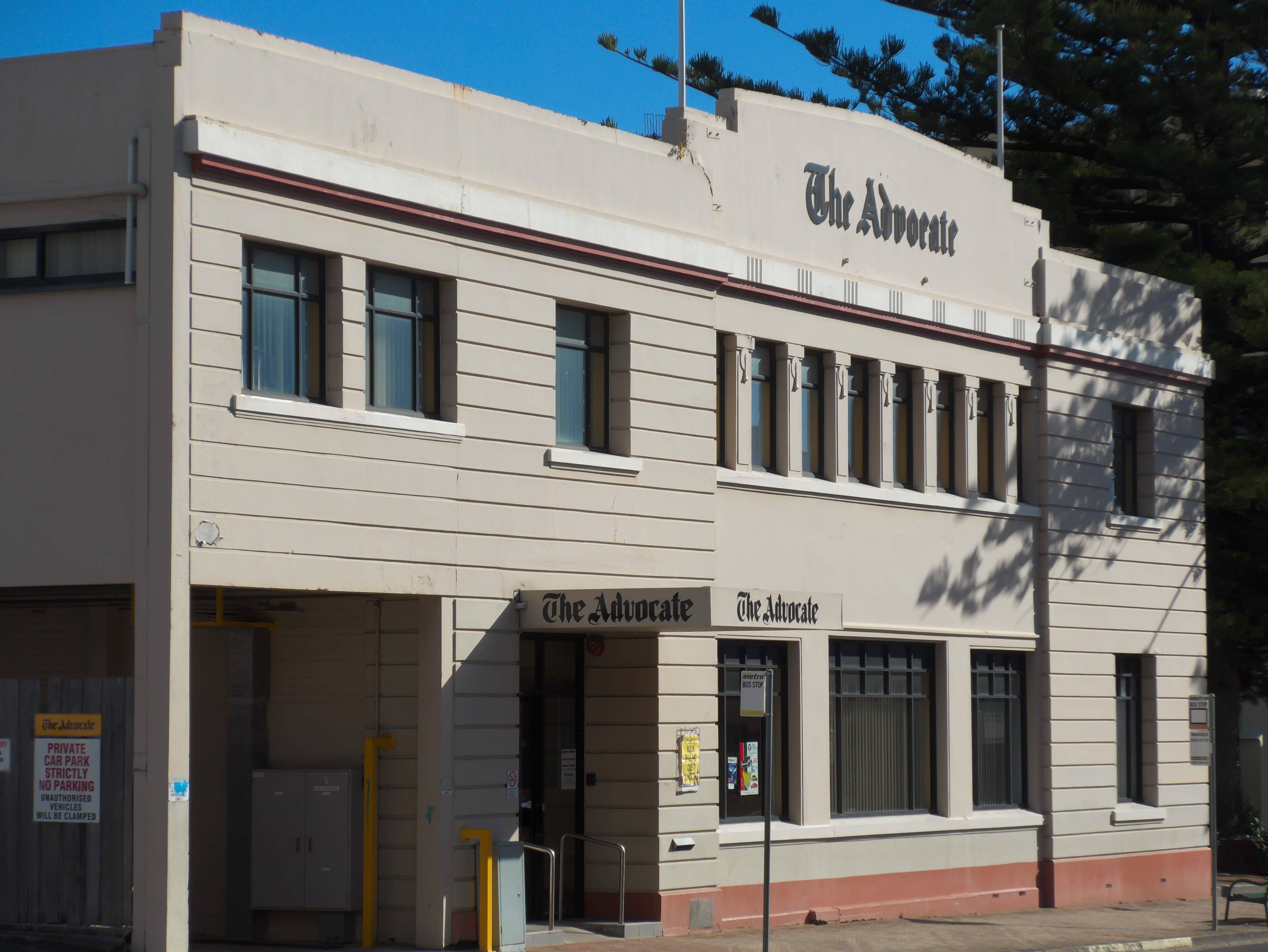 The Advocate building in Burnie. See also File:The-Advocate-Burnie-20150218-001.jpg. The Advocate moved out of the building in July 2016.[1]